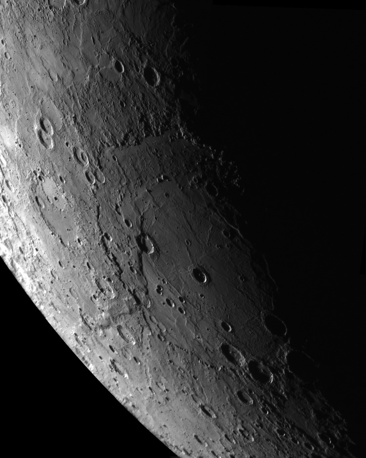 Rembrandt crater on Mercury by MESSENGER in October 2008